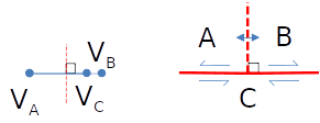 Triple junction theory